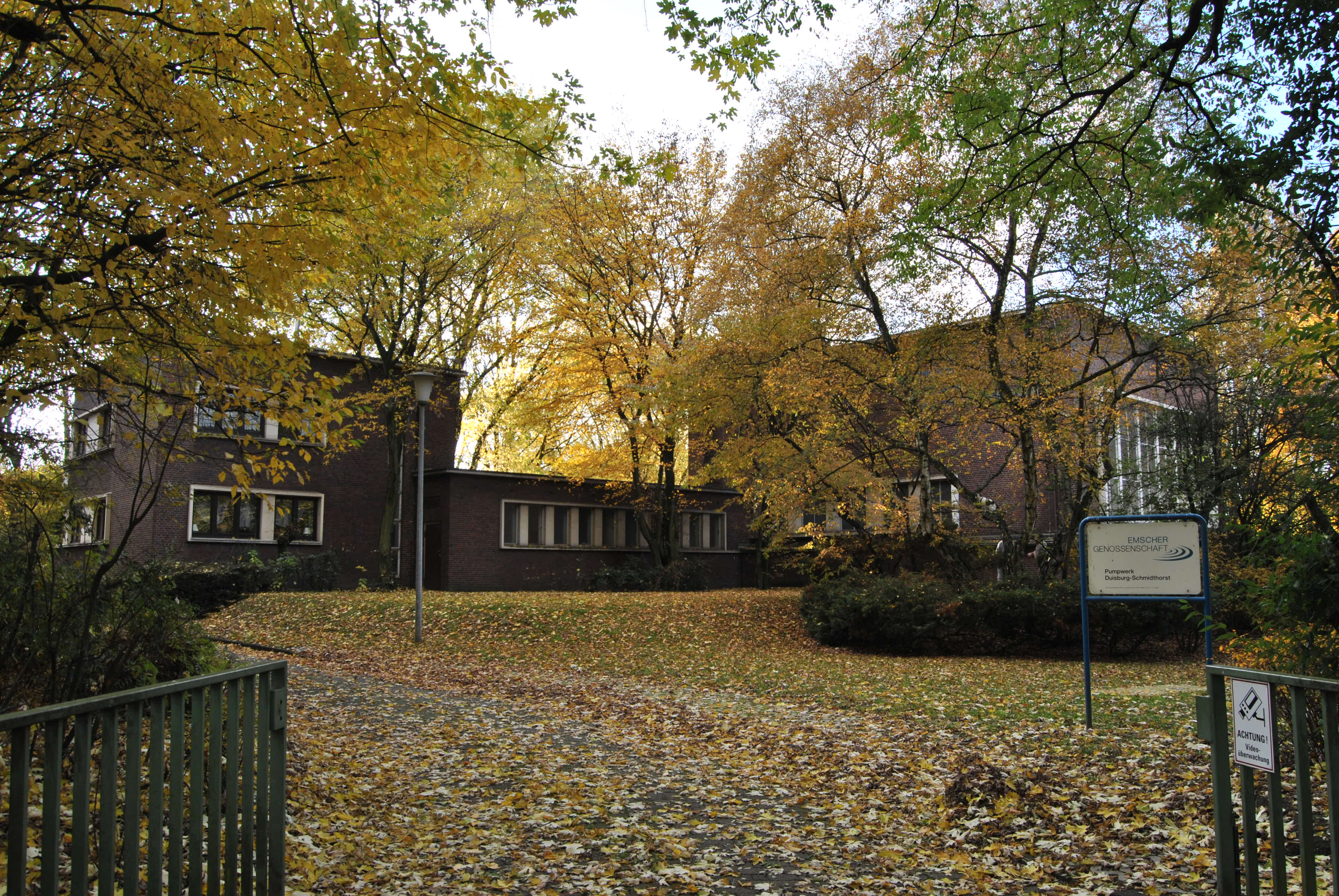 Duisburg (North Rhine-Westphalia, Germany) – borough Hamborn, district Obermarxloh – Schmidthorst Pumping Station This image shows a heritage building in Germany, located in the North Rhine-Westphalian city Duisburg (no. 27). This photograph was taken with a Nikon D3000.